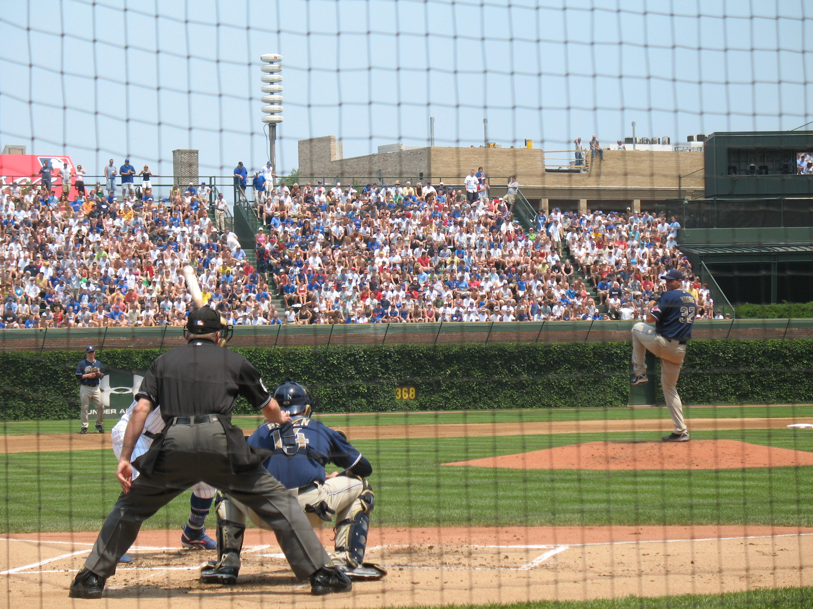 Description Chris Young DateJune 16, 2007SourceSelf-photographedAuthorUser:TonyTheTigerPermission (Reusing this file) I, Antonio Vernon, am the photographer and copyright holder. I release this photo for all fair uses. 13:17, 17 June 2007 . . TonyTheTiger . . 3072×2304 (1.04 MB) Chris Young